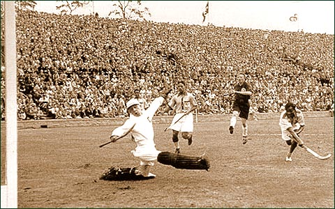 Classic shot of Hockey Wizard Dhyan Chand scoring a goal in the 1936 Olympic hockey final